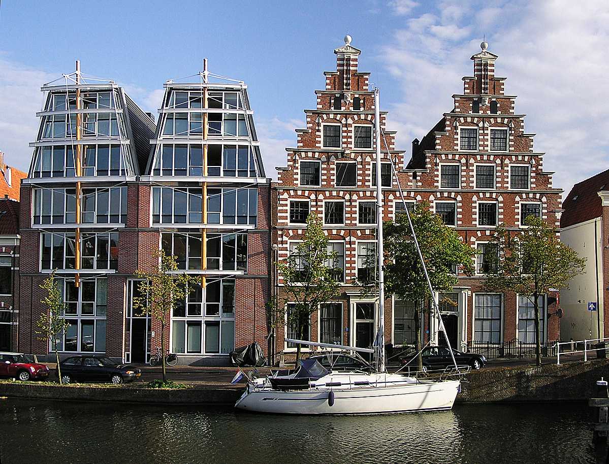 Apartment building next to the former brewery "De Olyphant"; modern vs. traditional houses along the Spaarne River, Haarlem, Netherlands